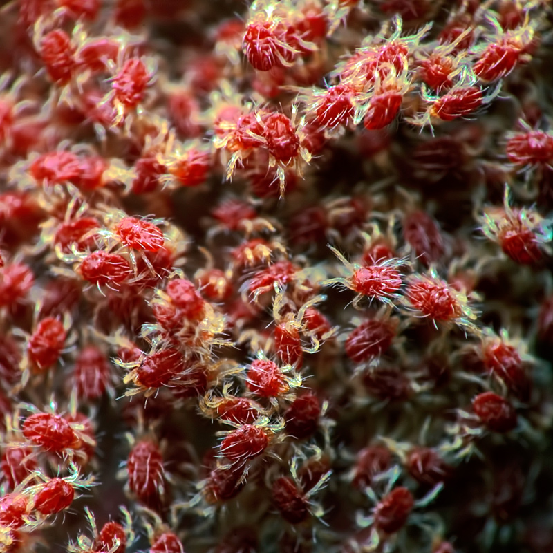 Tetranychus urticae (Koch, 1836)